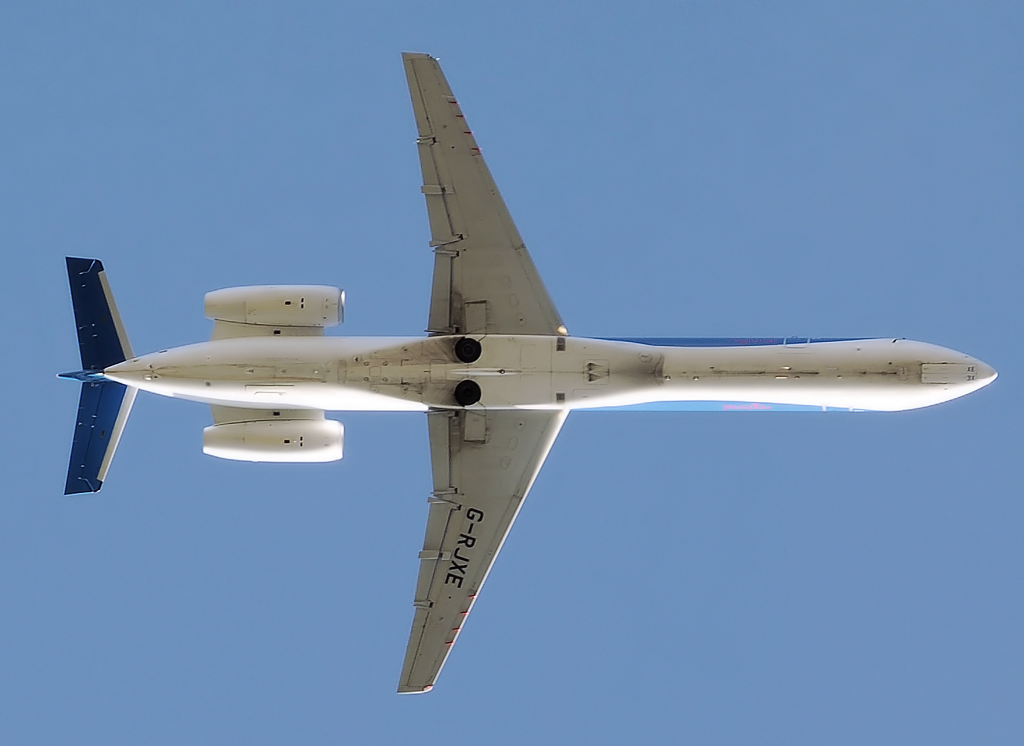 A bmi Embraer ERJ 145 (G-RJXE) takes off from London Heathrow Airport, England. The undercarriages are fully retracted, the main undercarriage wheels remain exposed in flight.